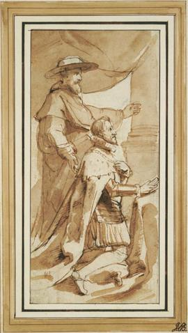 Archduke Albert with His Patron Saint, Albert of Louvain